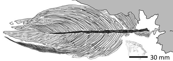 Drawing of a very large feather from the Green River Formation, probably referrable to Gastornis